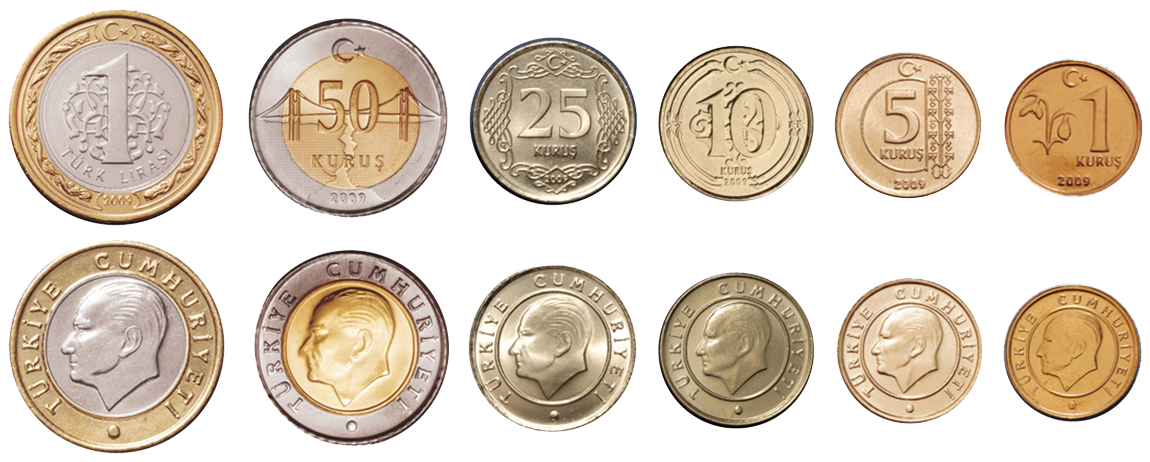 New Turkish coins